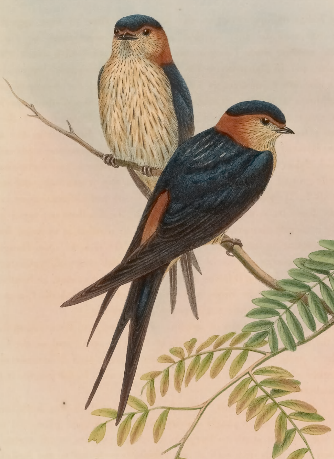 Cecropis daurica (erythropygia)